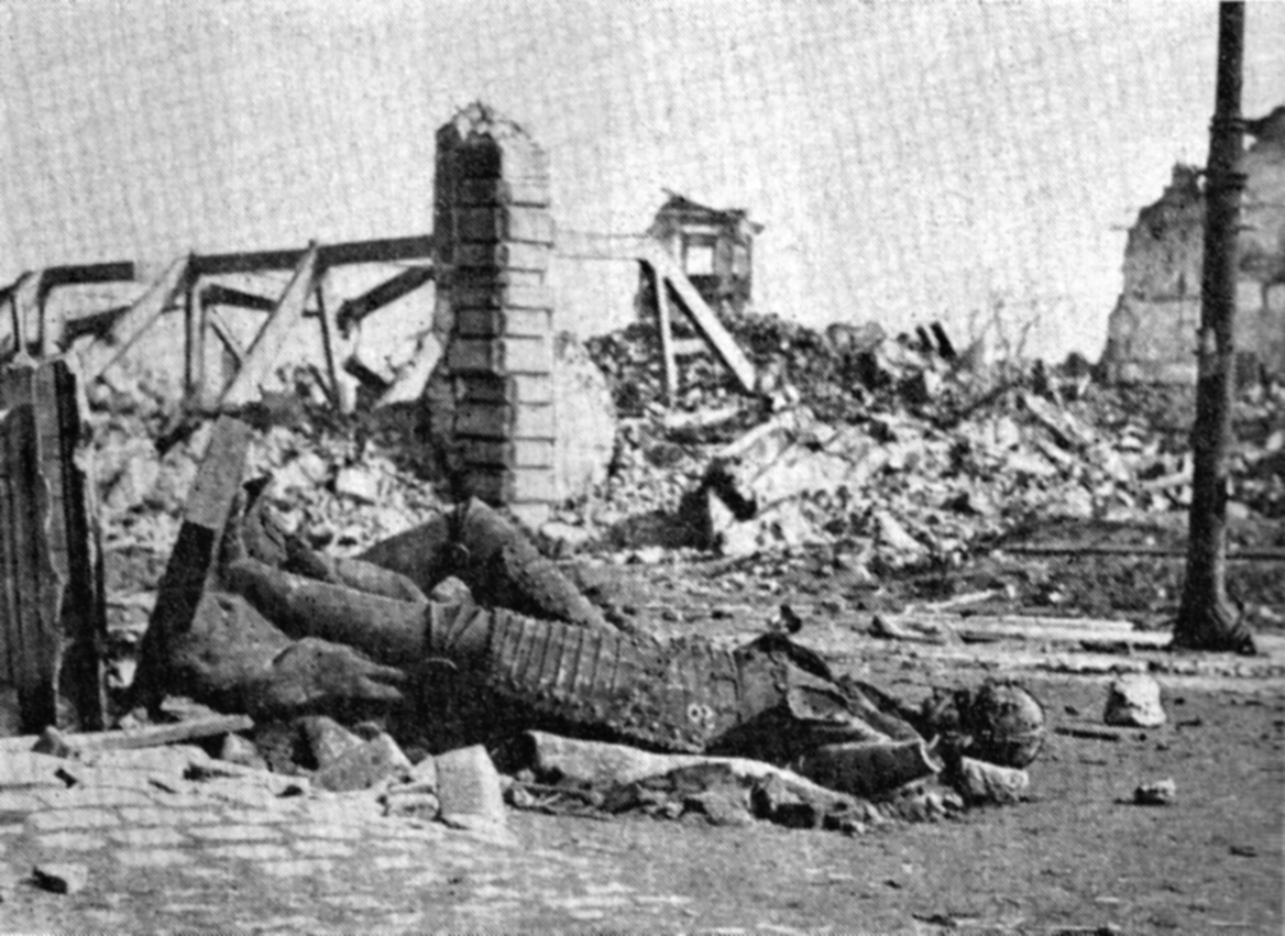 Royal Castle in Warsaw on January 1945. The Castle was deliberately destroyed by the Germans in 1944 - Planned destruction of Warsaw.